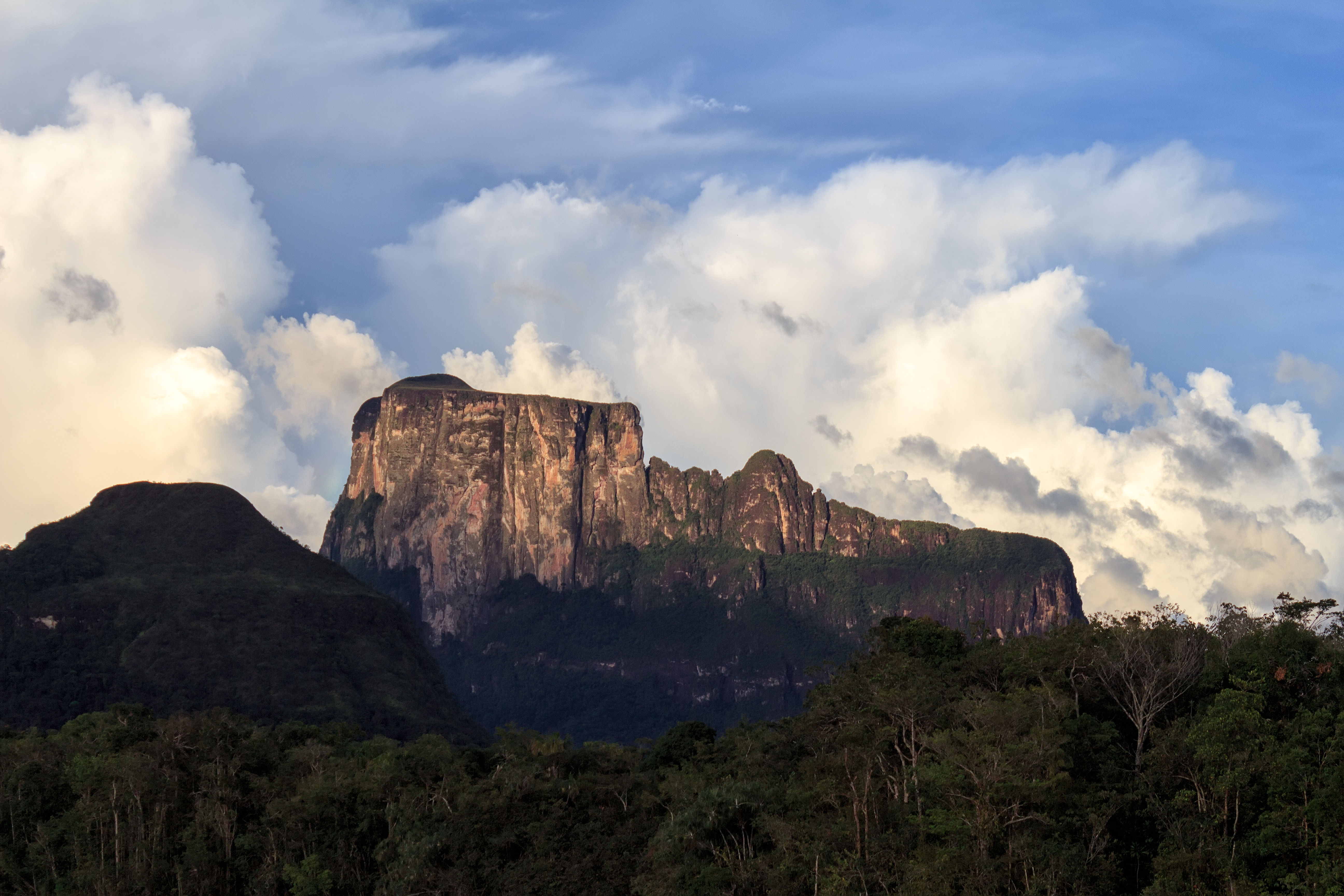 Autana Tepuy, Natural monument Cerro Autana